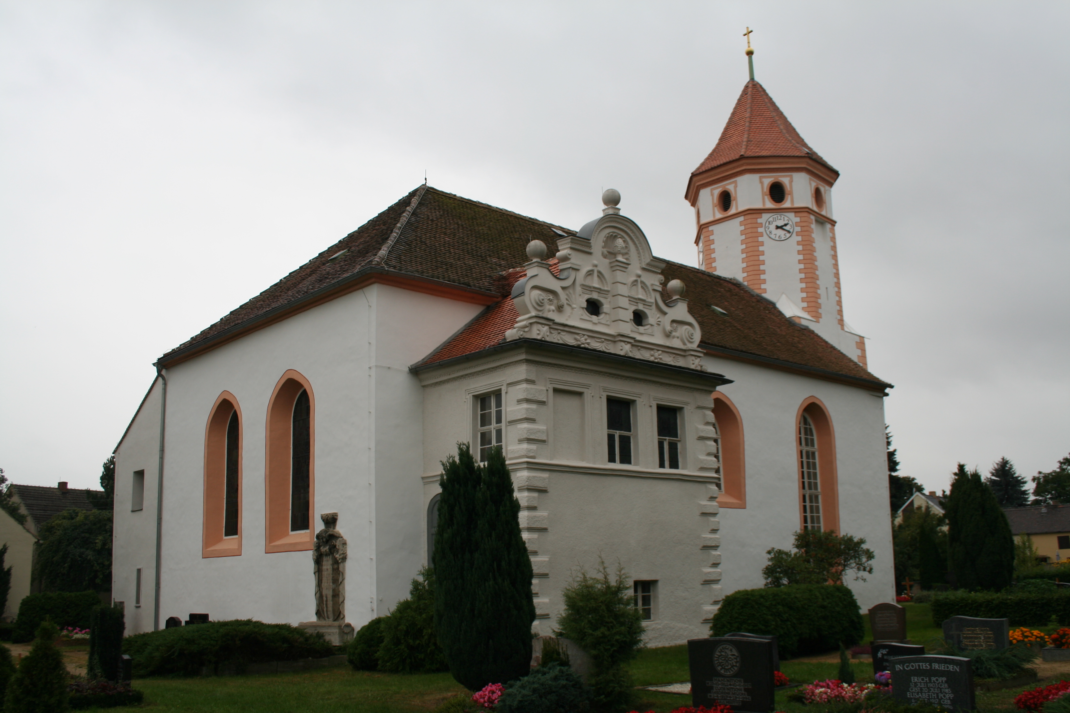 Church in Kleinbautzen Hornjoserbsce: Ewangelska cyrkej w Budyšinku